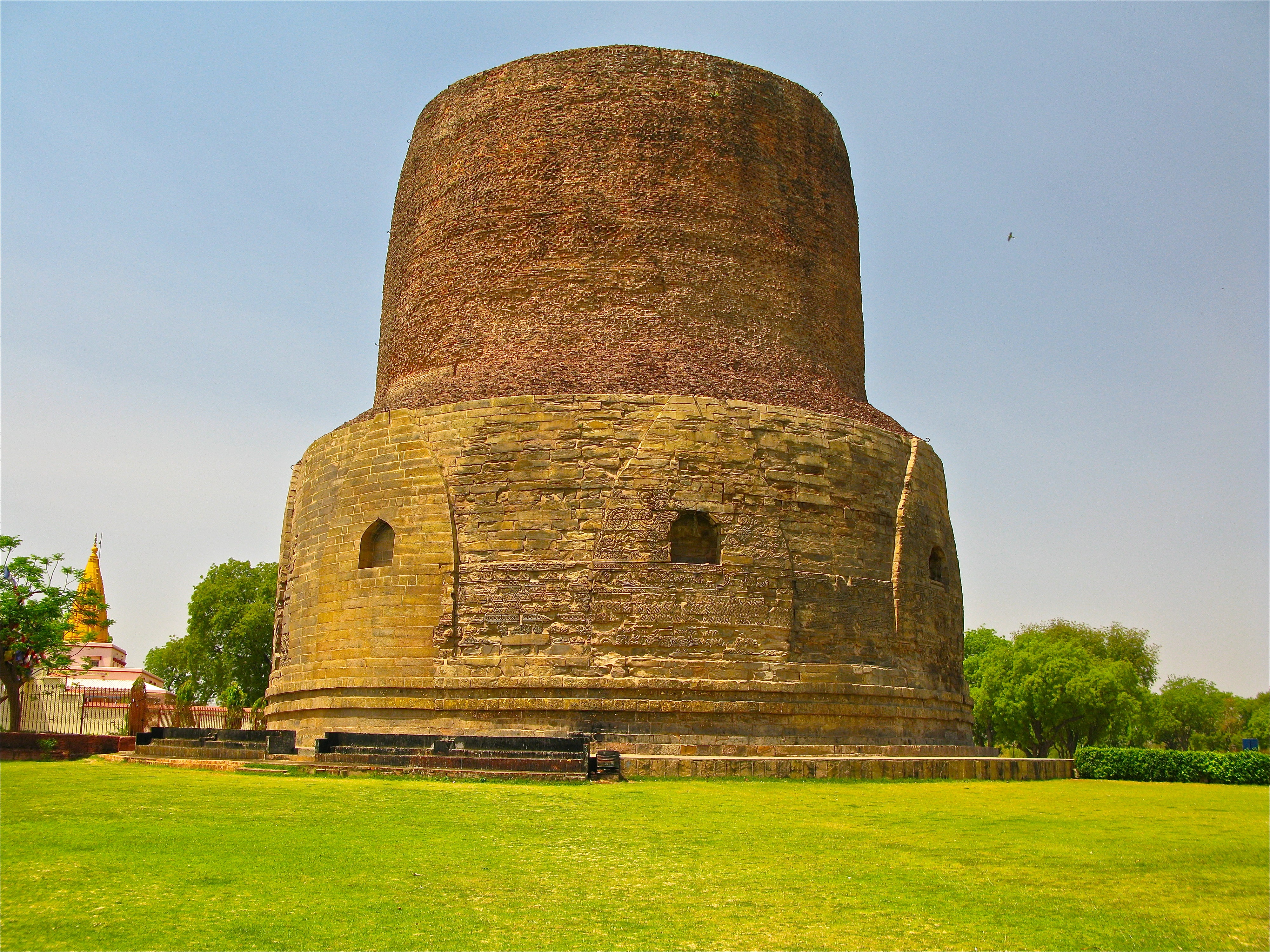 Dhamekh Stupa, where the Buddha gave the first sermon on the Four Noble Truths and the Eightfold Path to his five disciples after attaining enlightenment at Bodh Gaya. Also seen behind the stupa in the left corner is the yellow-coloured spire of Digamber Jain temple, dedicated to 11th Jain Tirthankar, Shreyansanath, known to be his birth place.